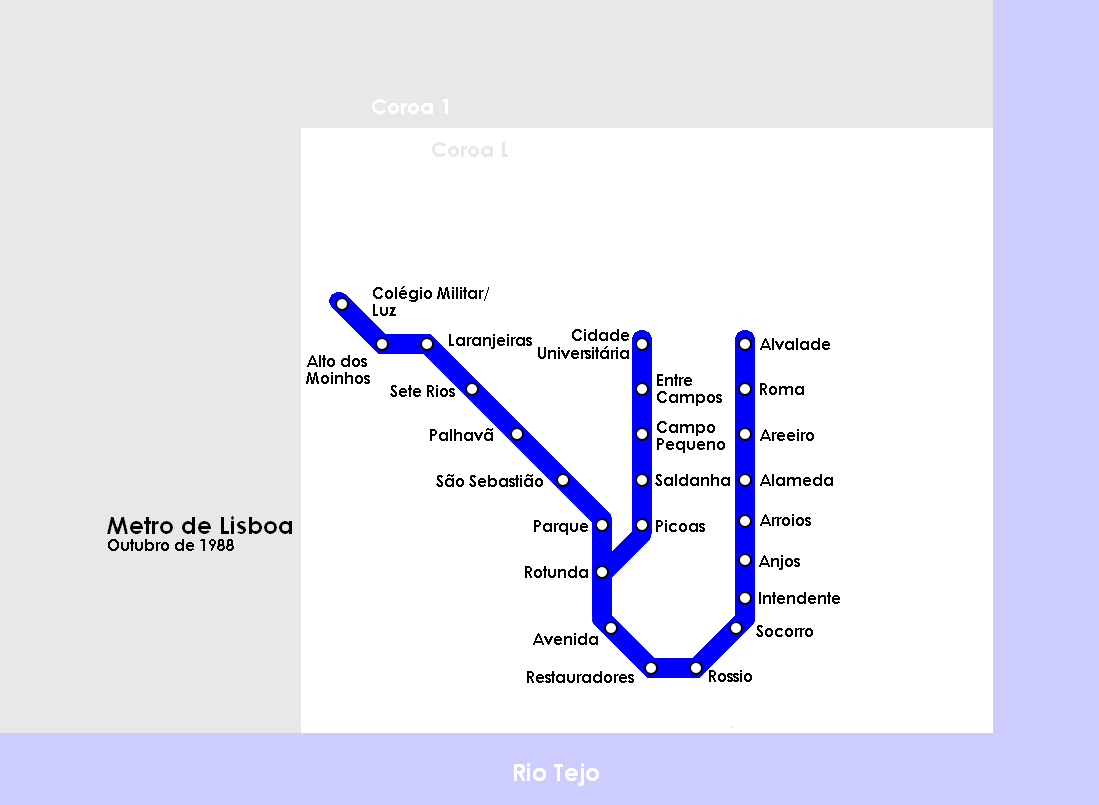 Map of Lisbon Metro in October 1988